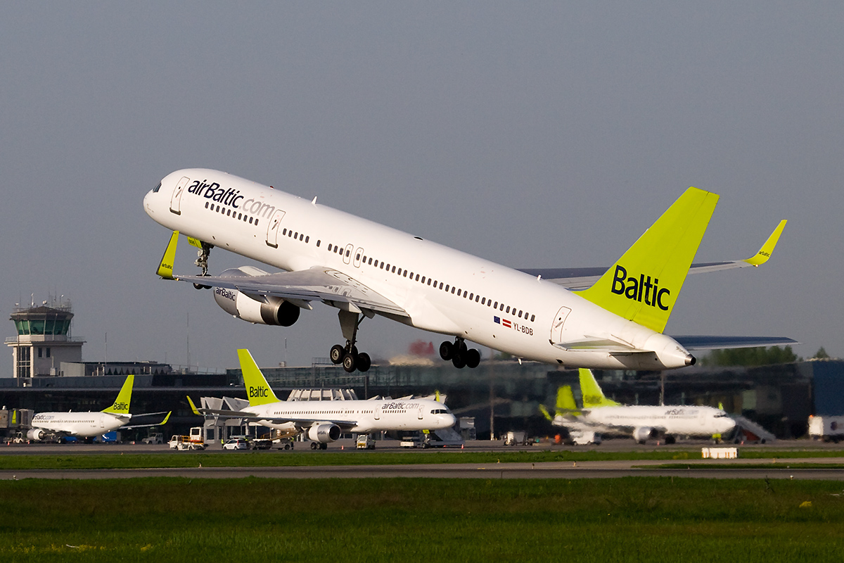 AirBaltic Boeing 757-200 takes off from Riga International Airport